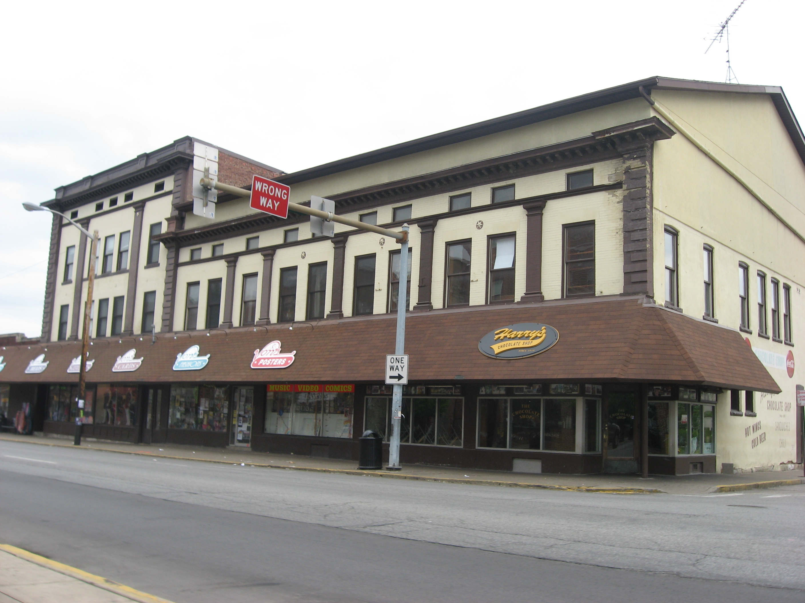 Front of Harry's Chocolate Shop, located at 329 State Street (State Road 26) in downtown West Lafayette, Indiana, United States. It was built in 1910.